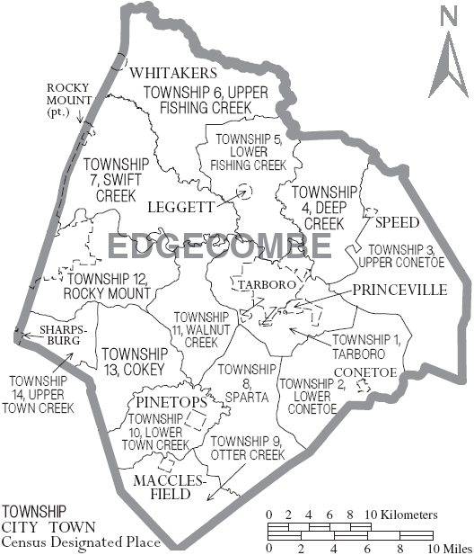 Map of Edgecombe County, North Carolina, United States with township and municipal boundaries